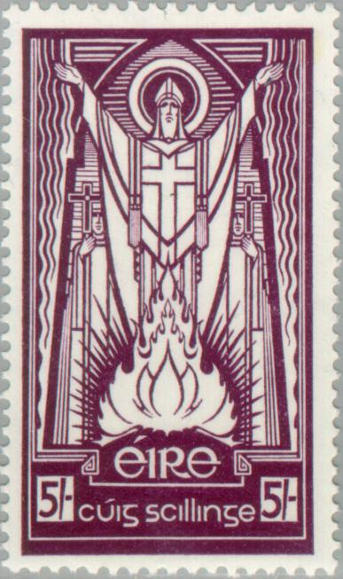 Irish definitive 5 shilling stamp depicting Saint Patrick, 1937